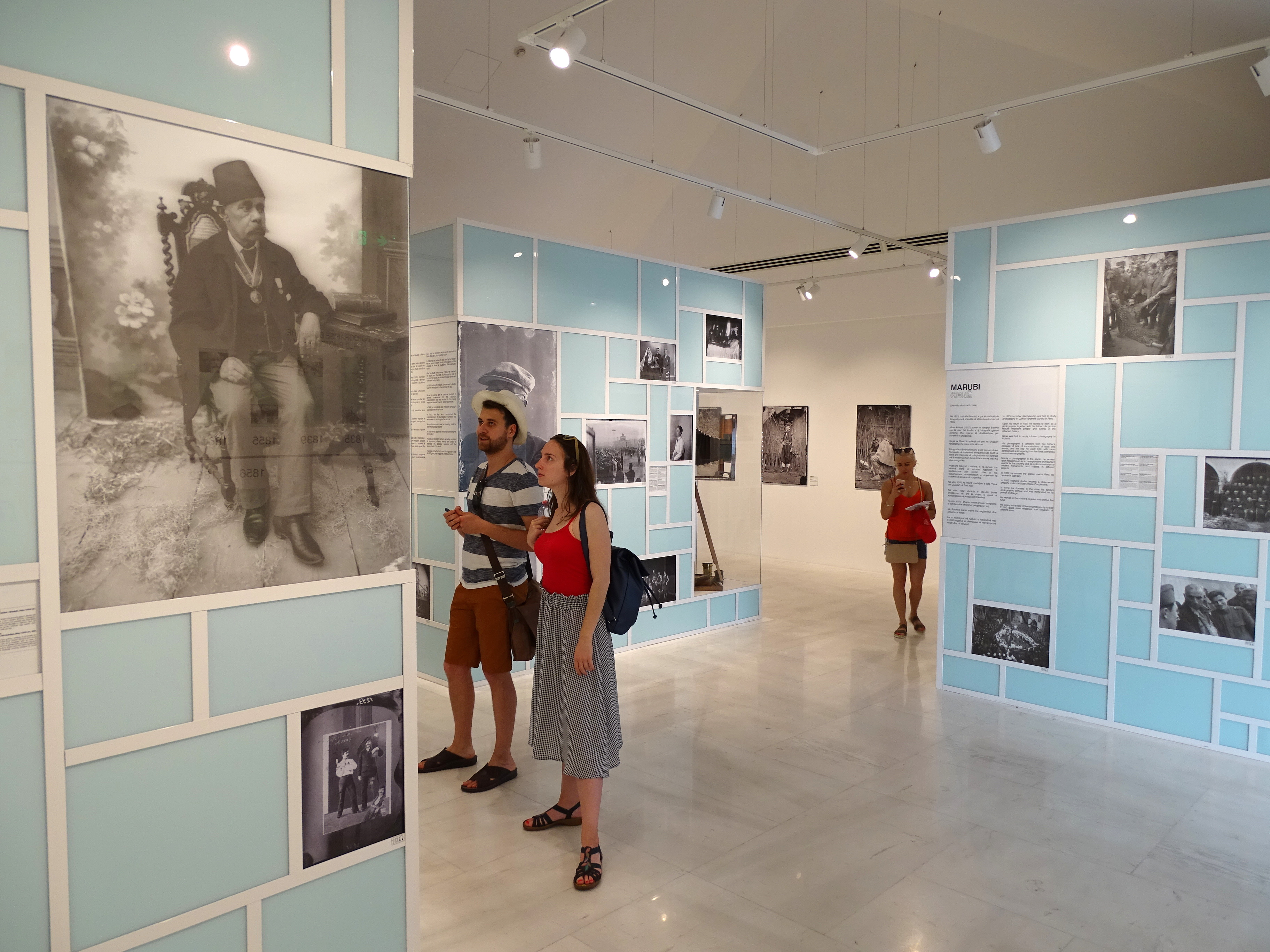 Photos by Adam Jones